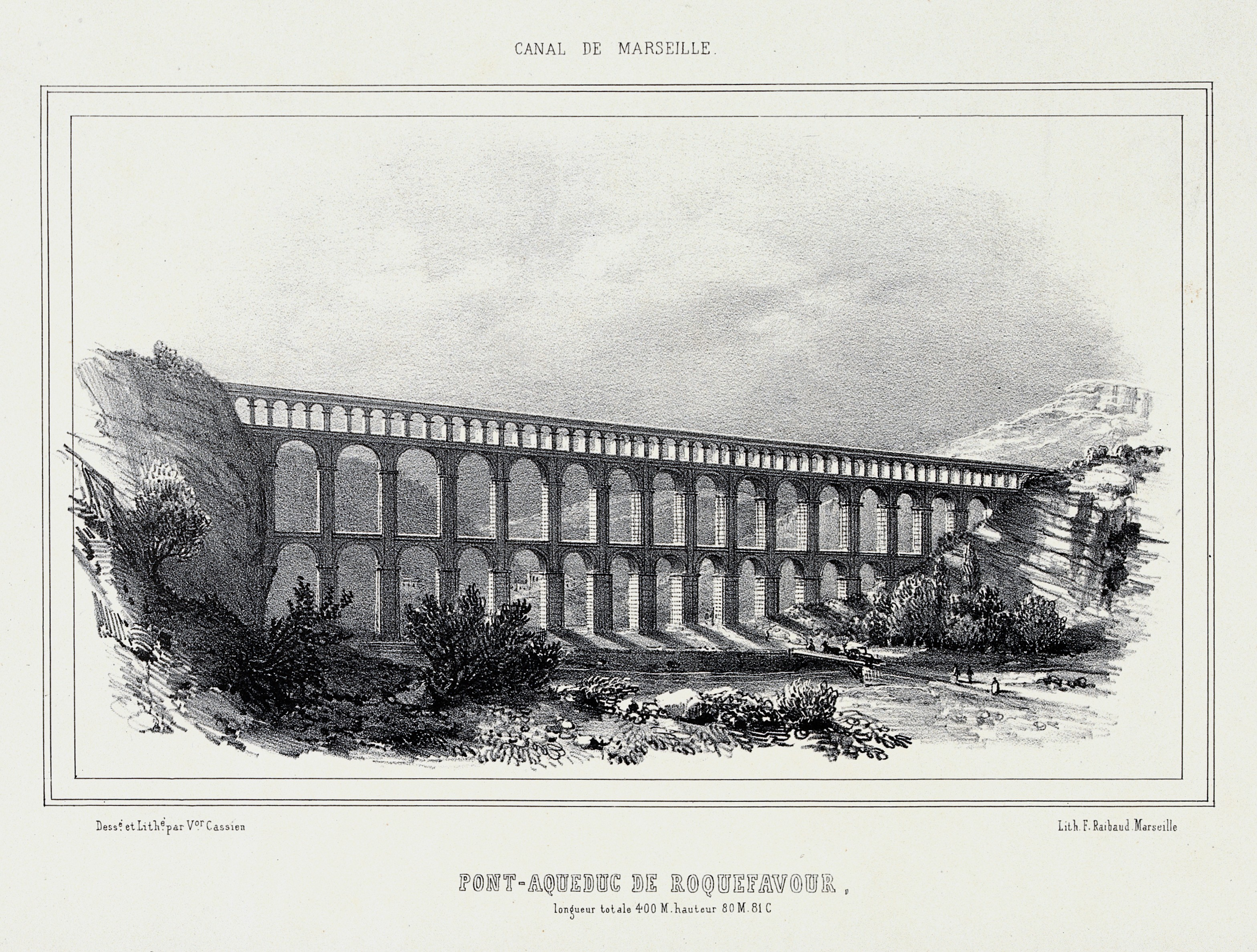 The Roquefavour bridge/aqueduct (Ventabren, Bouches-du-Rhône, France), part of the the Canal de Marseille. Lithograph by V. Cassien after himself. Iconographic Collections Keywords: Victor-Désiré Cassien